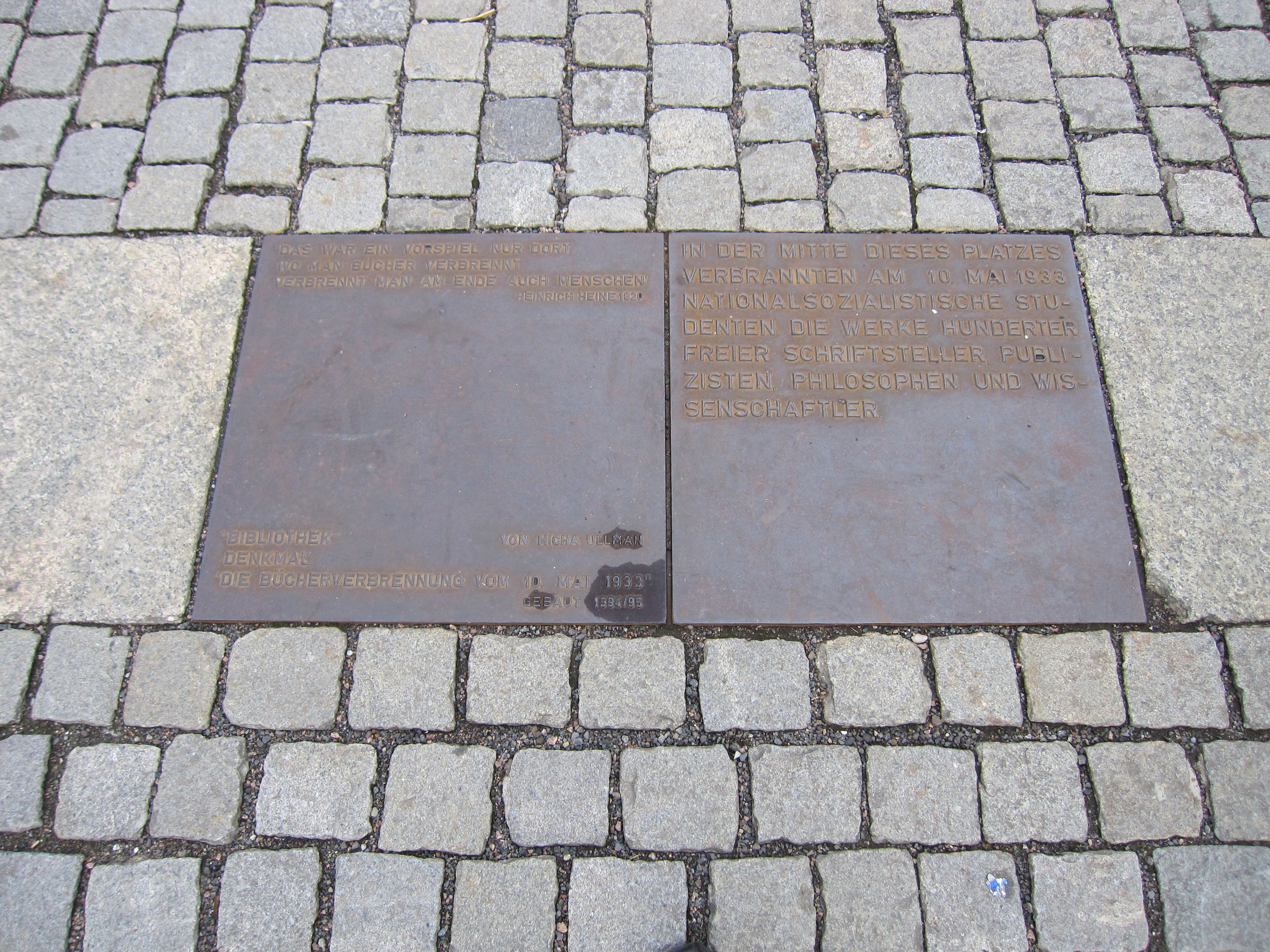 Memorial stone of the Berlin auto de fé in 10 may 1933